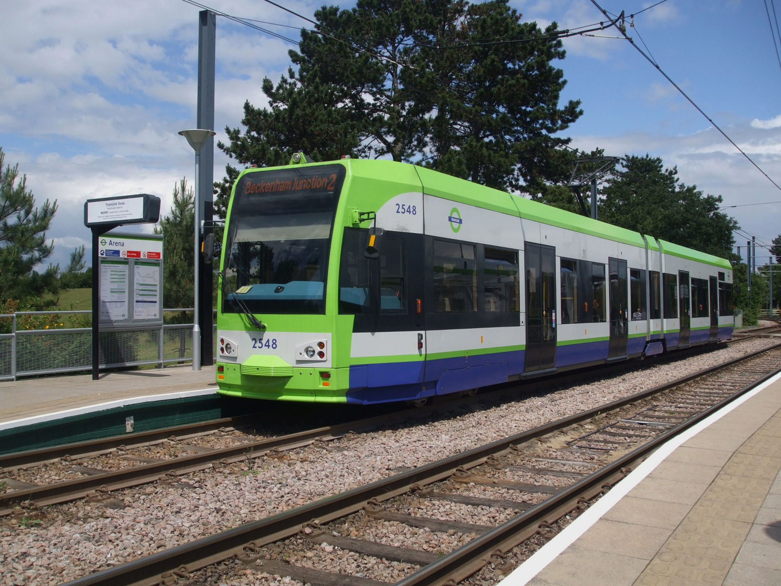 Tram 2548 calls at Arena tram stop with a Beckenham Junction service